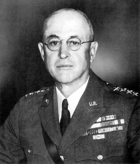 Chief of Staff of the United States Army General Malin Craig, wearing four star insignia